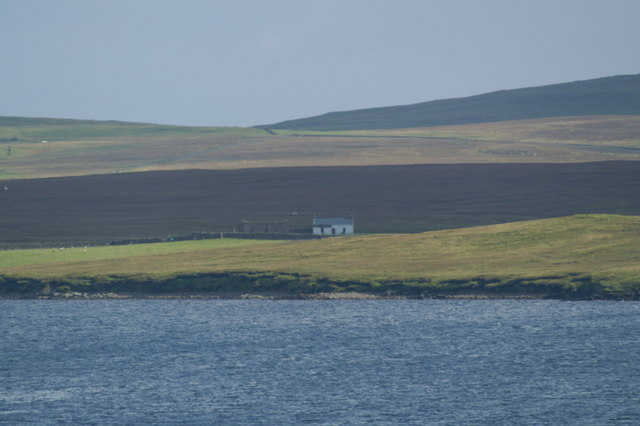 House on Hascosay Although no longer permanently inhabited, there is still a habitable house on the island of Hascosay, used when working with sheep on the island. In the late 18th and early 19th century, Hascosay was home to the Edmondston family, who became lairds of Buness on Unst. The furthest hills are beyond Hascosay and are part of Fetlar.